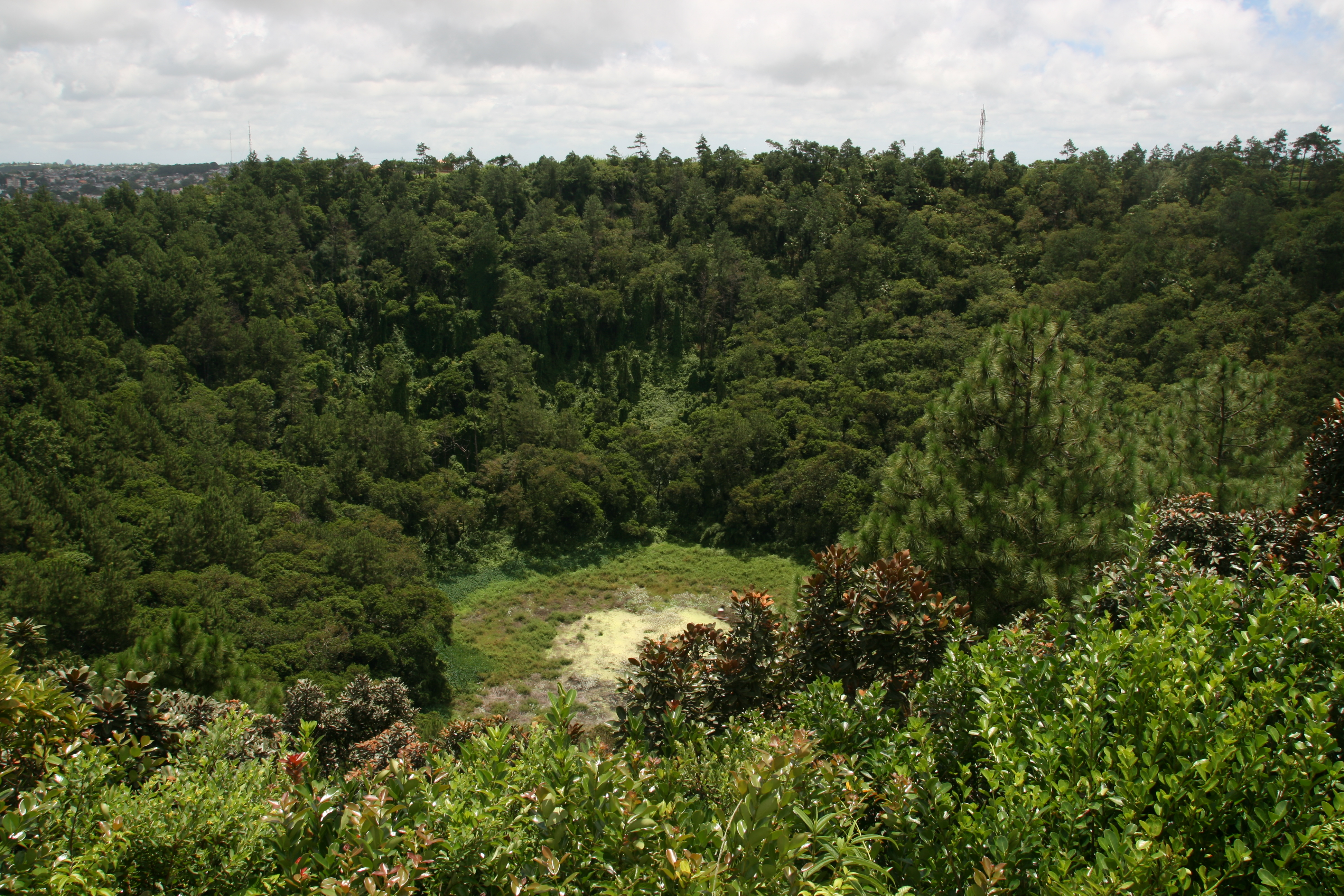 dormant volcano with a well-defined cone and crater. It is 605 m (1,985 ft) high and located in Curepipe, Mauritius.